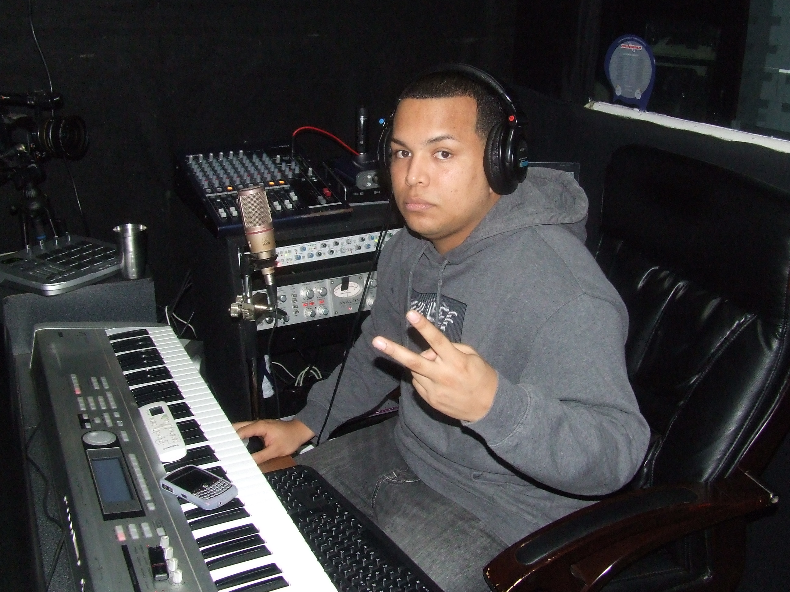 Predikador working on studio a song of Joey Montana